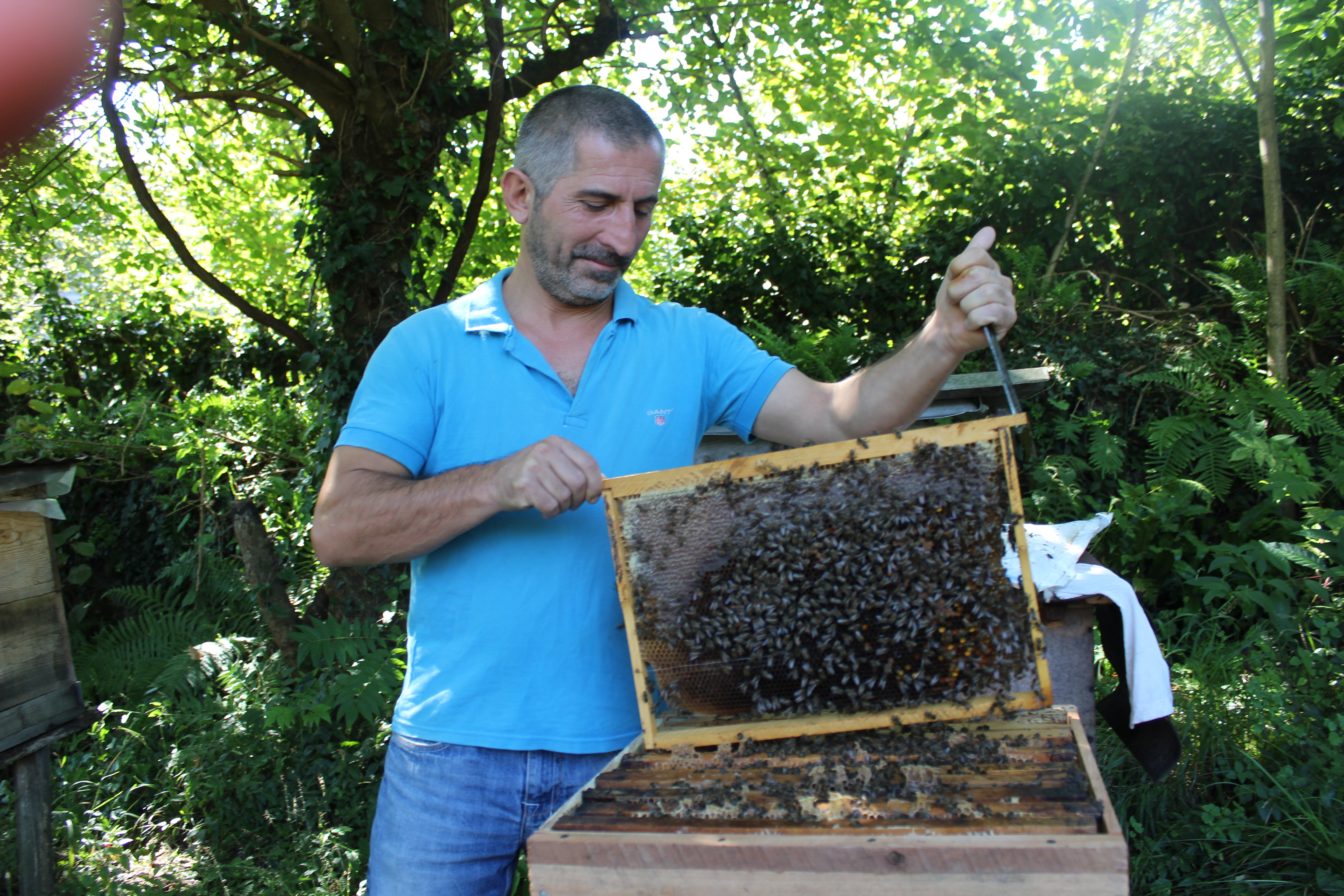 Gurian Beekeeper